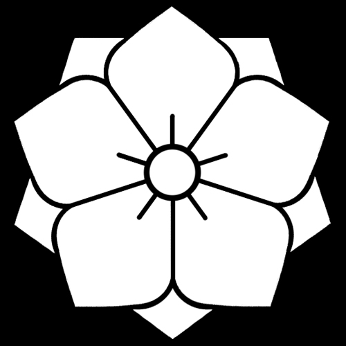 Japanese family crest "Yae-Gikyō", a double whorled (yae) Campanula spp. (kikyō)